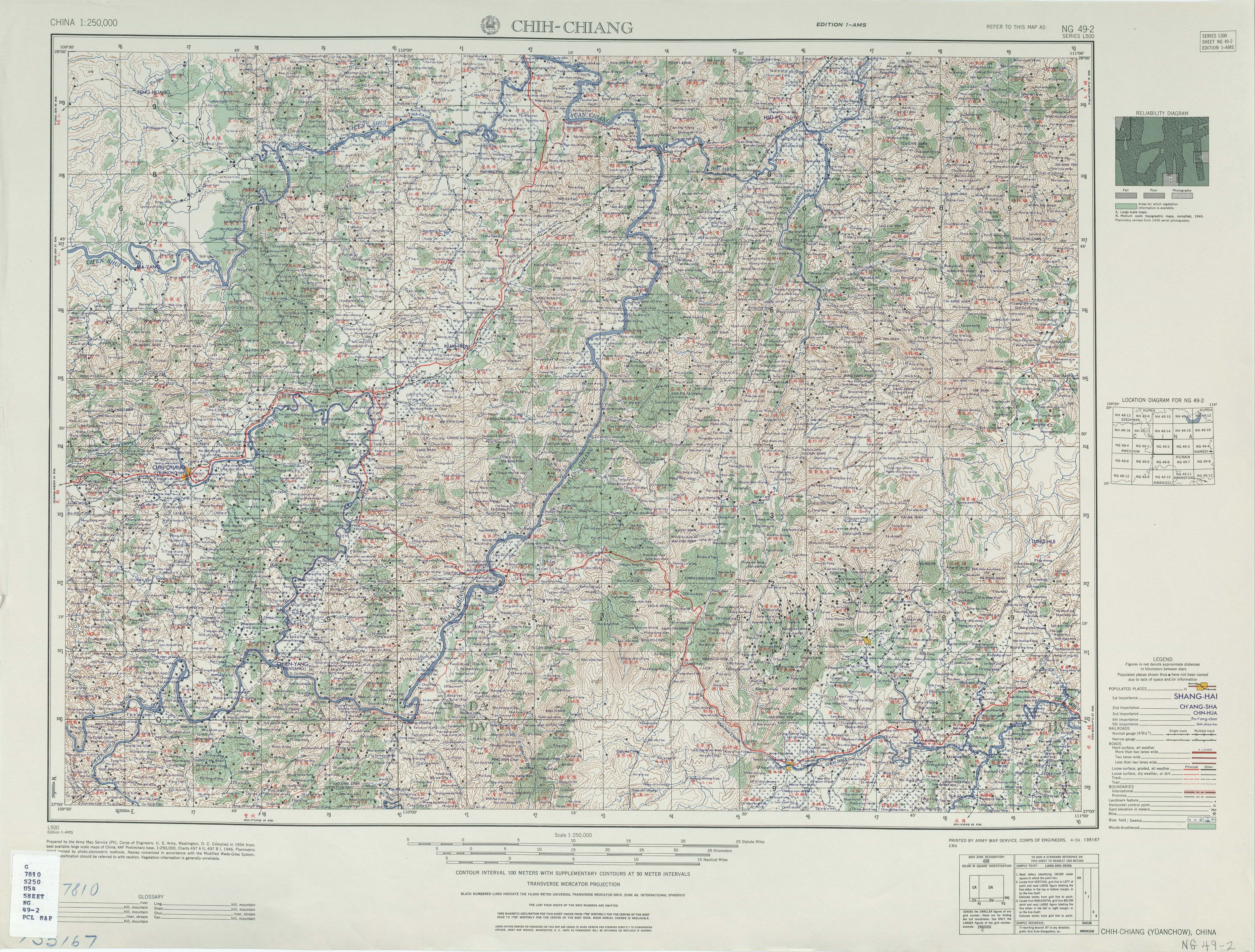 China AMS Topographic Maps